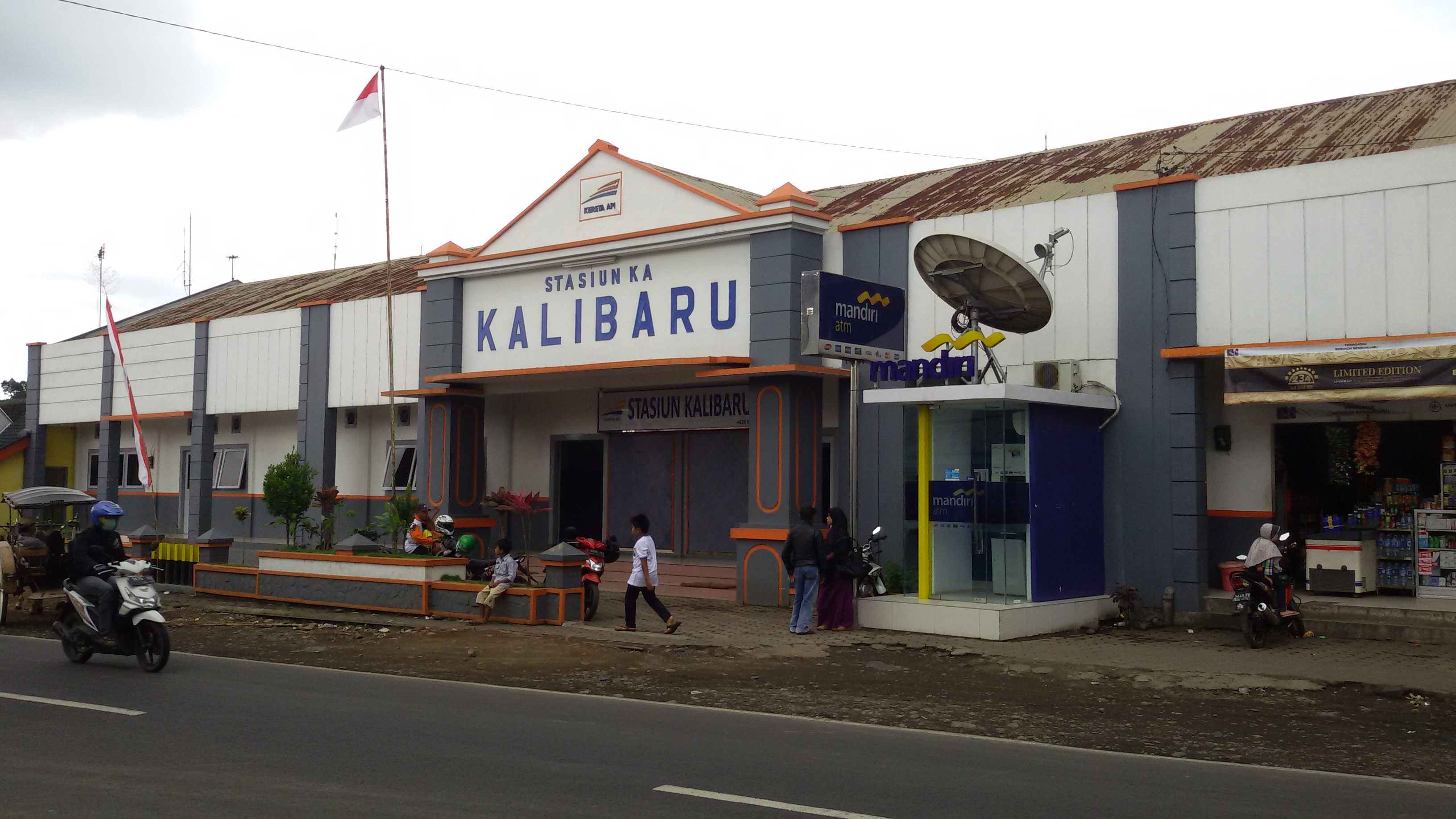 The front of Kalibaru Train Station in 2014